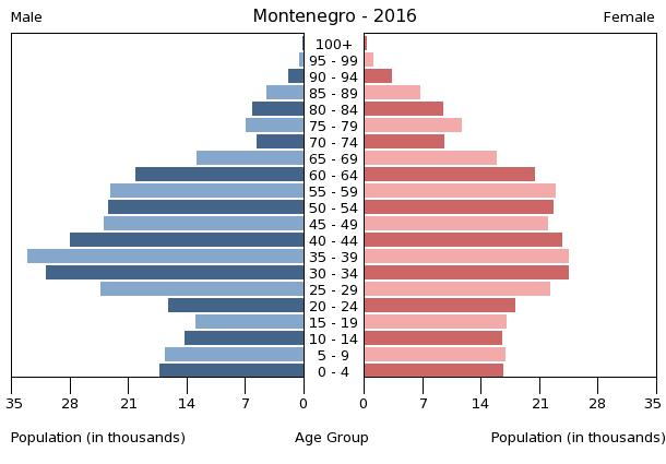 The population pyramid of Montenegro illustrates the age and sex structure of population and may provide insights about political and social stability, as well as economic development. The population is distributed along the horizontal axis, with males shown on the left and females on the right. The male and female populations are broken down into 5-year age groups represented as horizontal bars along the vertical axis, with the youngest age groups at the bottom and the oldest at the top. The shape of the population pyramid gradually evolves over time based on fertility, mortality, and international migration trends.